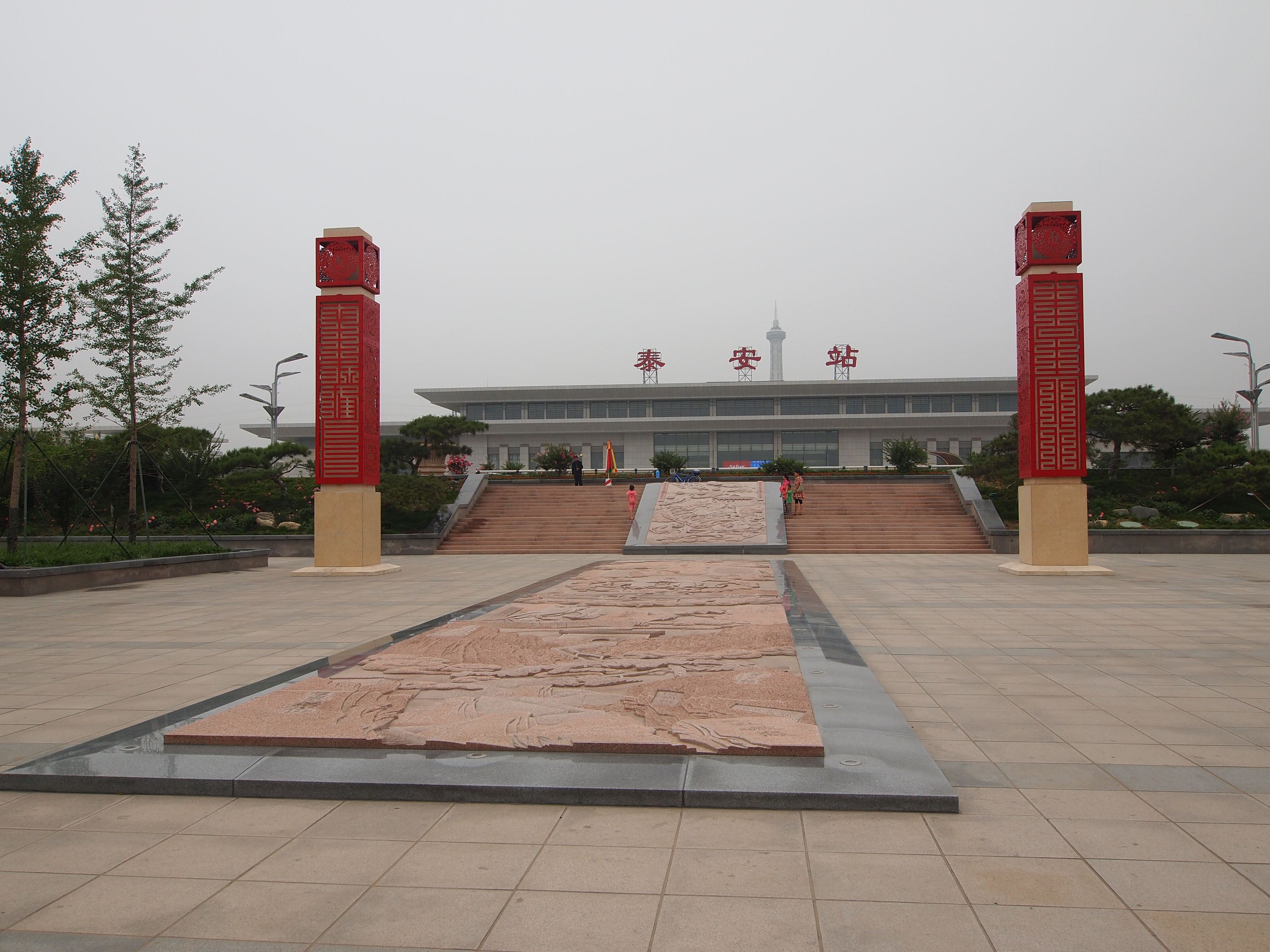 泰安高铁站 - Tai‘an High-Speed Rail Station - 2012.06